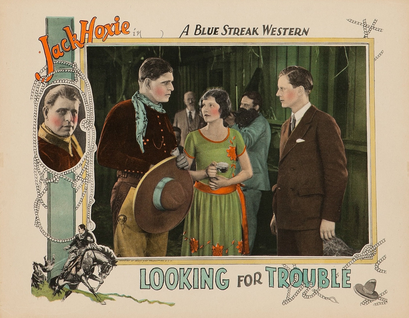 Lobby card for the 1926 film Looking For Trouble.